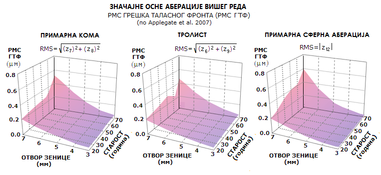 АБЕРАЦИЈЕ ОКА ВИШЕГ РЕДА